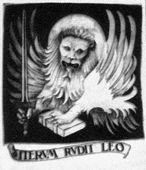 ensign of the 87ª Squadriglia Aeroplani of the Regia Aeronautica (Royal Italian Air Force).